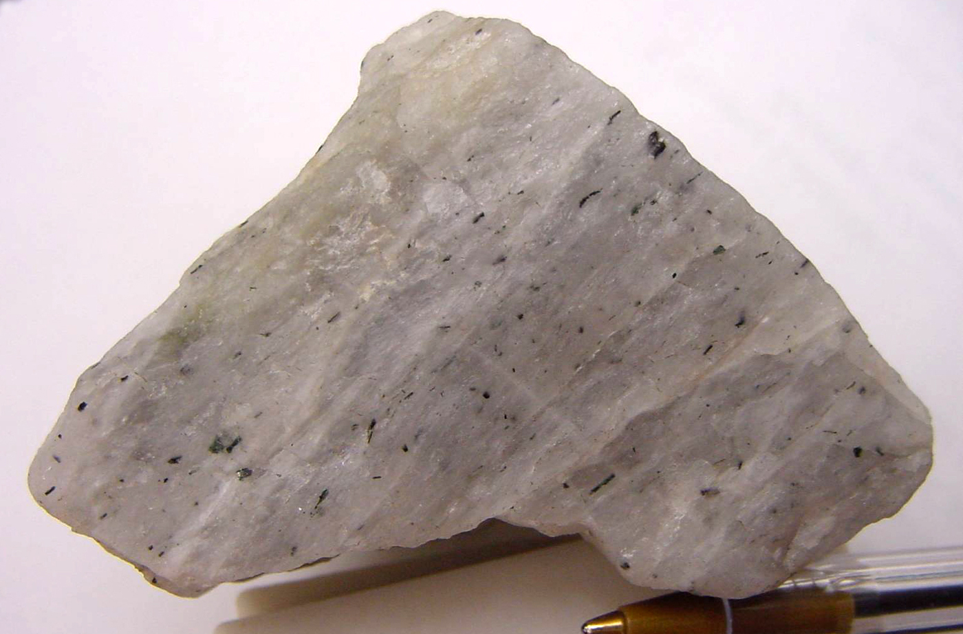 Nepheline (pen for scale) - Mineral collection of Brigham Young University Department of Geology, Provo, Utah - No BYU index